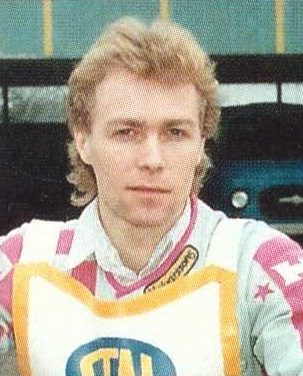 Bohumil Brhel in polish speedway team Stal Gorzow in season 1992.